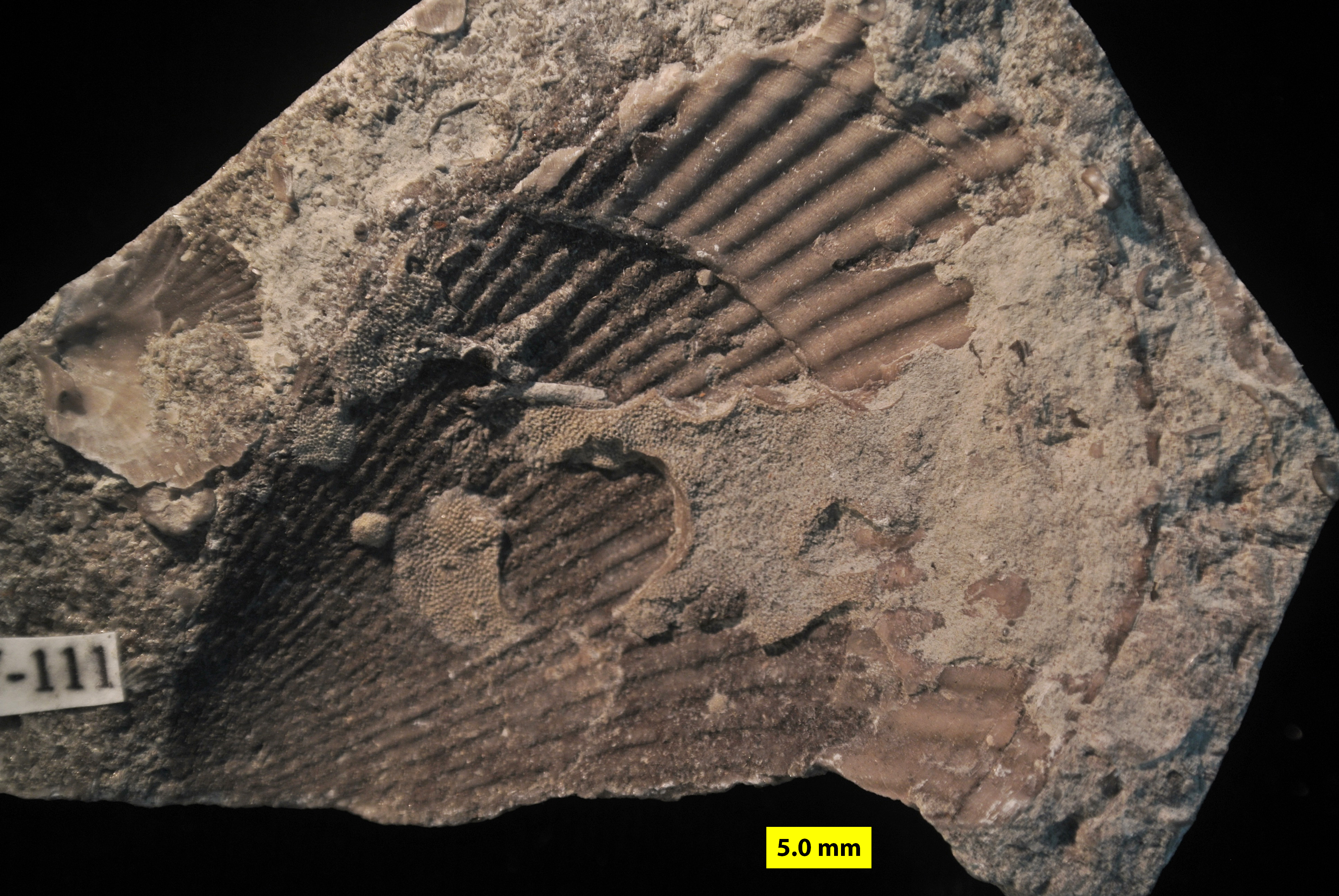 External mold of the Upper Ordovician bivalve Anomalodonta gigantea from the Waynesville Formation of Franklin County, Indiana.